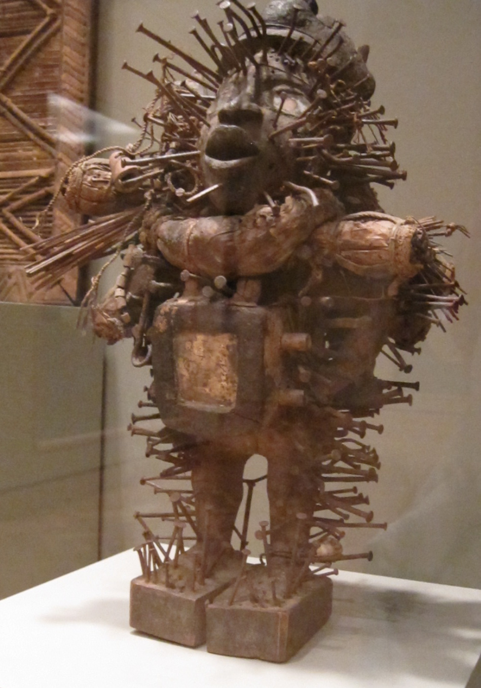 Nkisi Nkonde. 19th Century Kongo, Central Africa Wood, natural fibers, nails Figure used for healing, taking oaths or sealing agreements. The spirit is activated by driving nails or blades into the figure. Each blade or nail represents an oath, agreement, or episode in village history. In the Minneapolis Institute of the Arts.